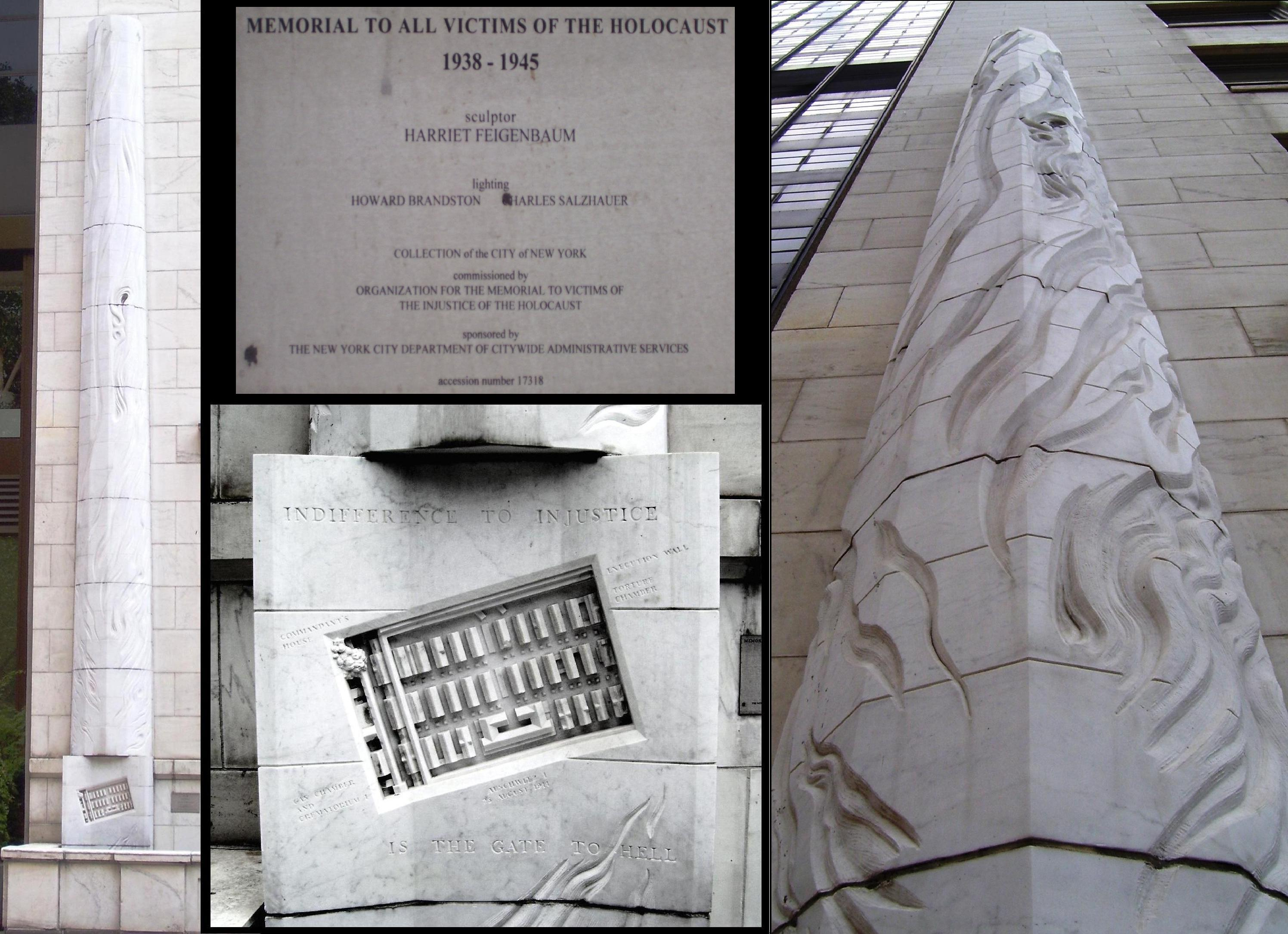 "Memorial to All Victims of the Holocaust: 1938-1945" by Harriet Feigenbaum (1990), located on the side of the courthouse of the Appellate Division of the New York State Supreme Court, Madison Avenue at East 25th Street, Manhattan, New York City.